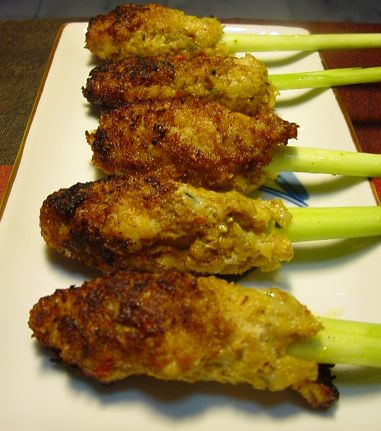 Satay Lilit, Satay Lilit - minced seafood on a lemon grass stick, grilled over charcoal Location: Bali.